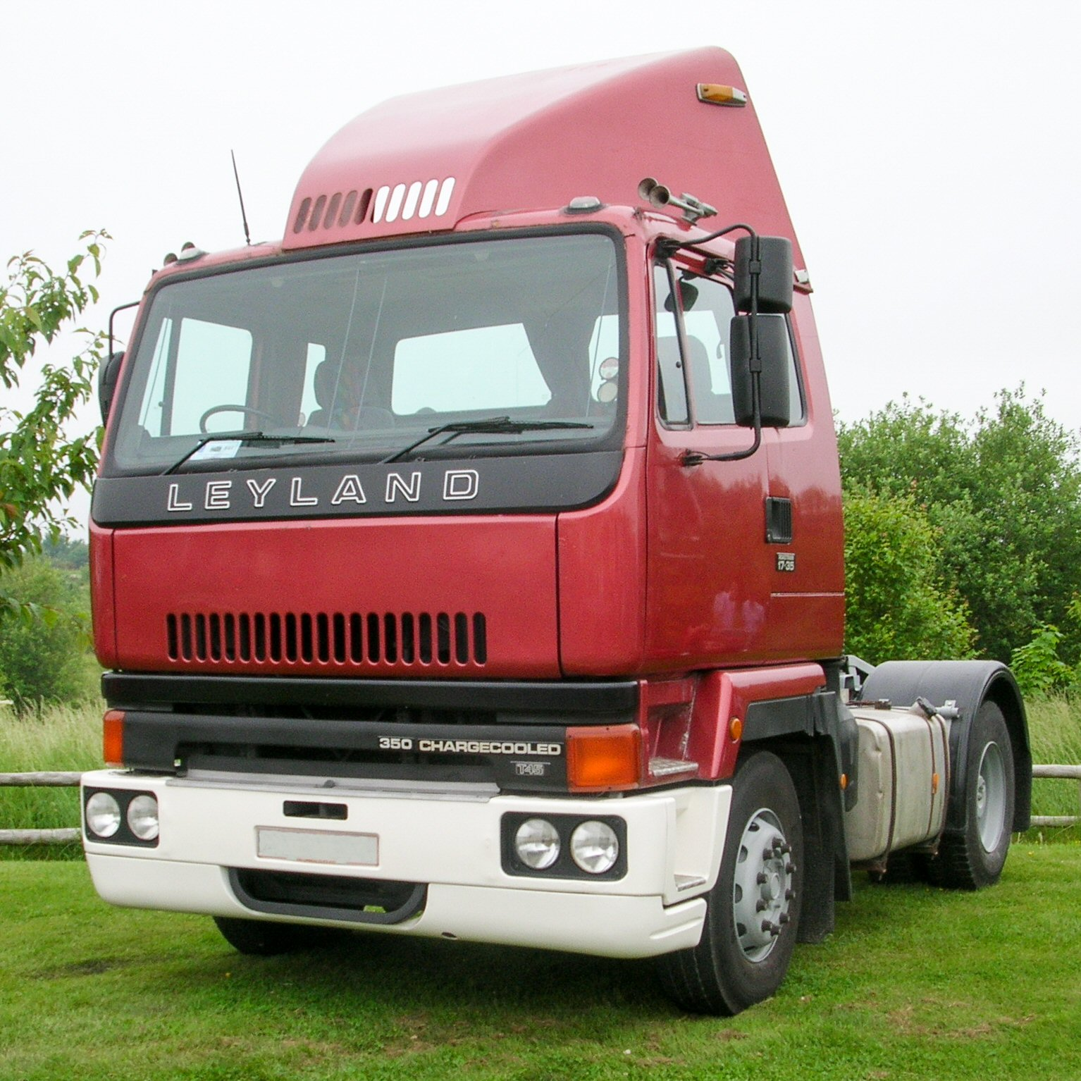 A Leyland T45 Roadtrain tractor unit, first registered in 1988. This vehicle was photographed attending the 2007 Classic Commercial Motor Show at the Heritage Motor Centre, Gaydon, UK.